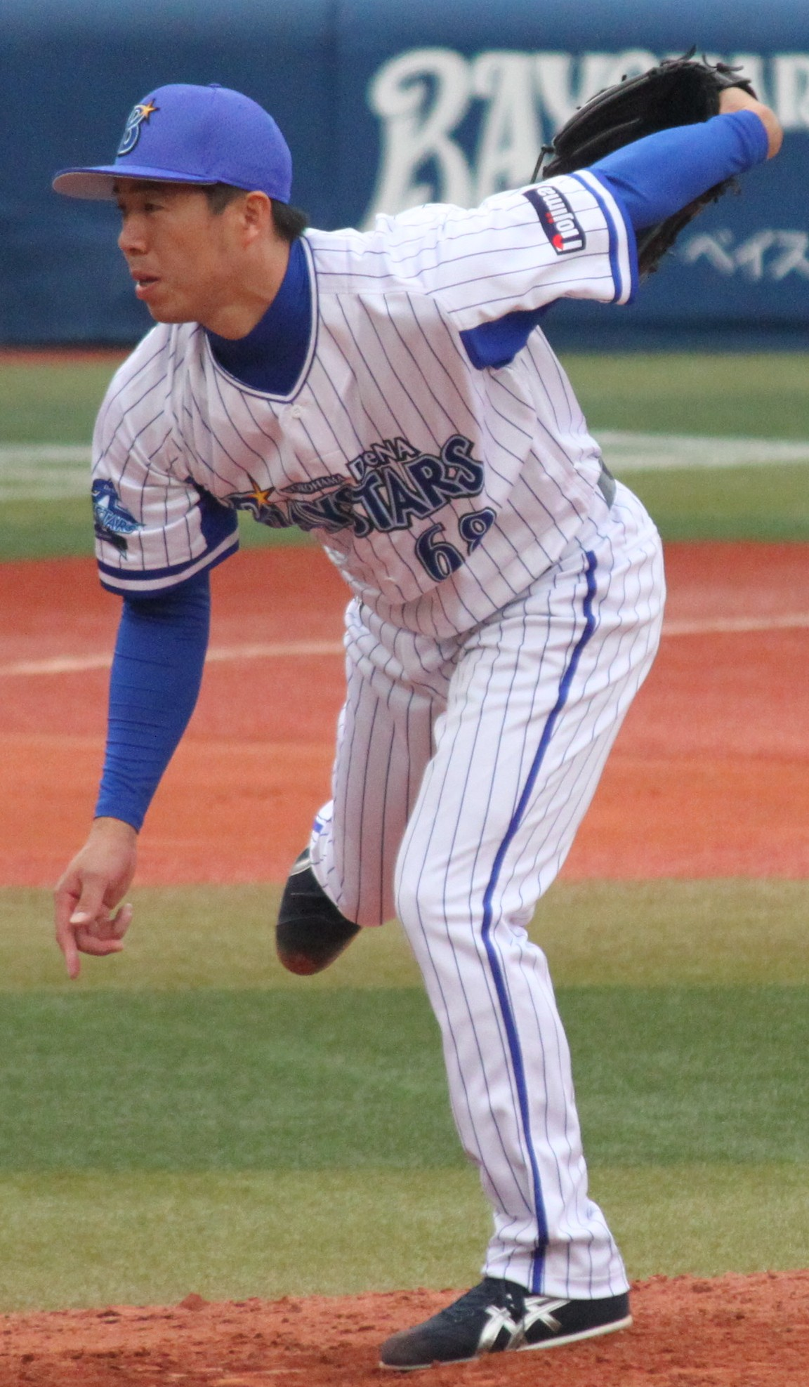 Yoshiaki Fujioka, pitcher of the Yokohama DeNA BayStars, at Yokohama Stadium